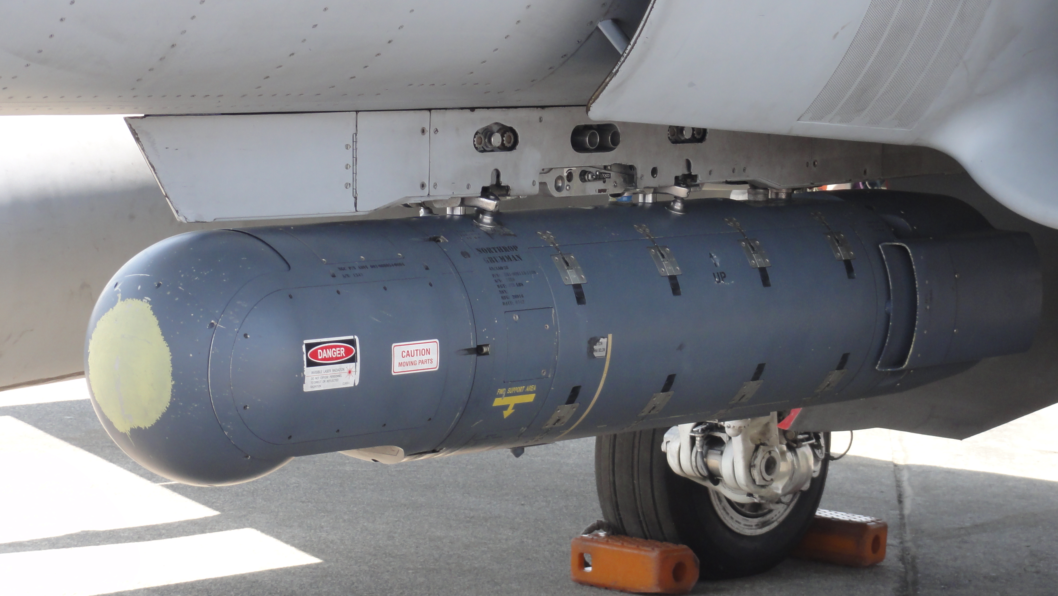 Targeting pod at Marine Corps Air Station Iwakuni, on Friendship Day 2012